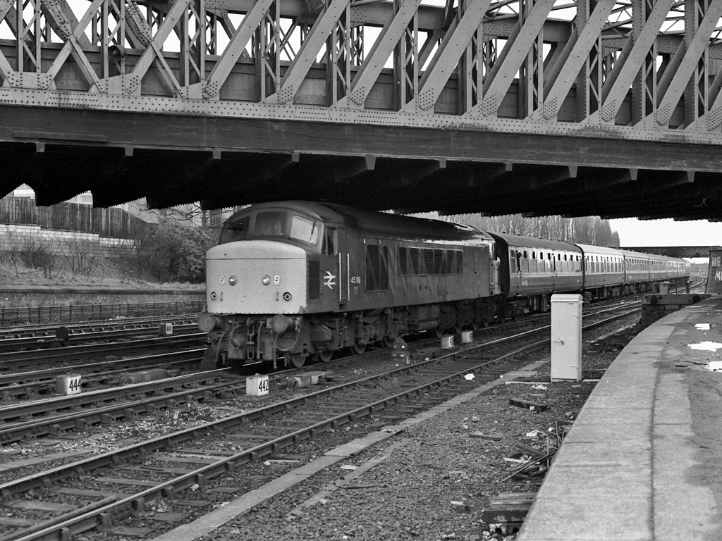 British Railways Type 4 1Co-Co1 class 45/1 diesel-electric locomotive number 45119 of Toton TMD approaches York station on the Down Leeds line at Holgate Junction with the 09:50 Liverpool Lime Street to Scarborough. Monday 4th April 1983